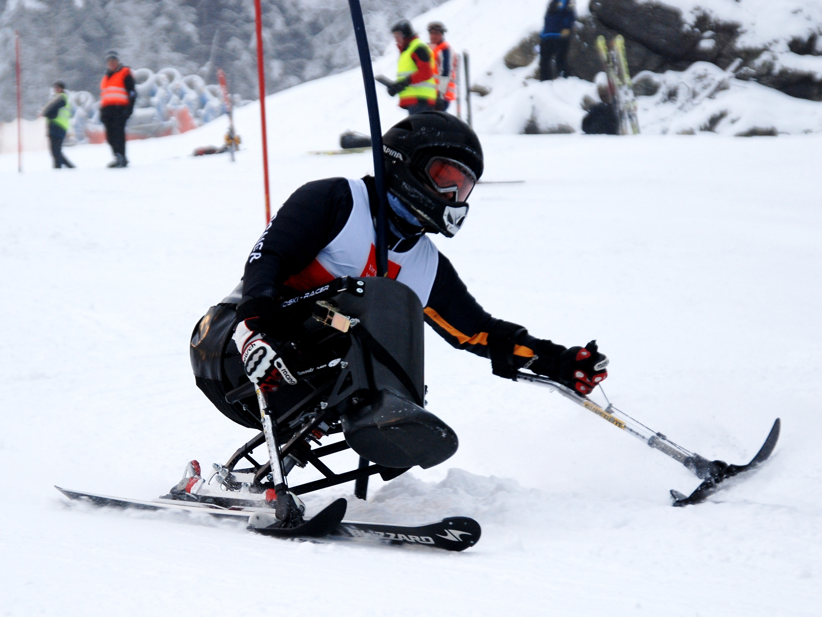 Anna Schaffelhuber, German monoskier, during World Cup Slalom in Rinn (Patscherkofel mountain), Austria